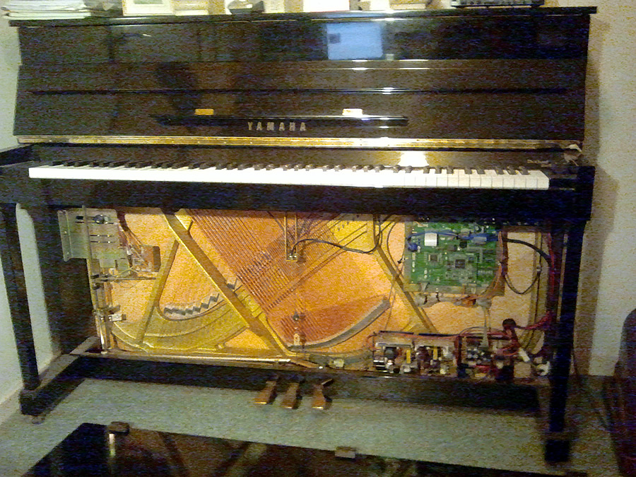 The internals of a Yamaha Disklavier